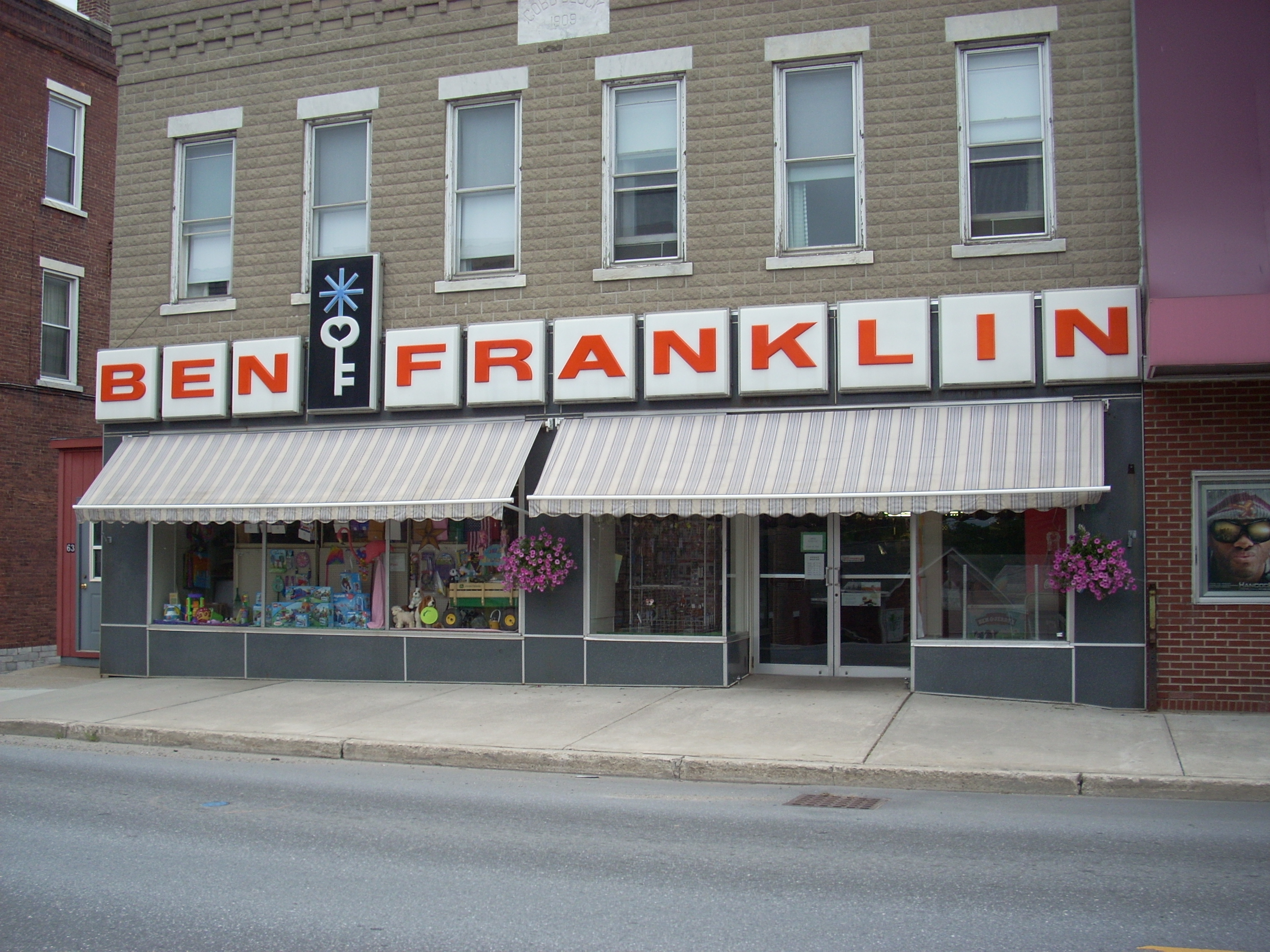 The outside of a Ben Franklin Store in Middlebury, Vermont, USA.